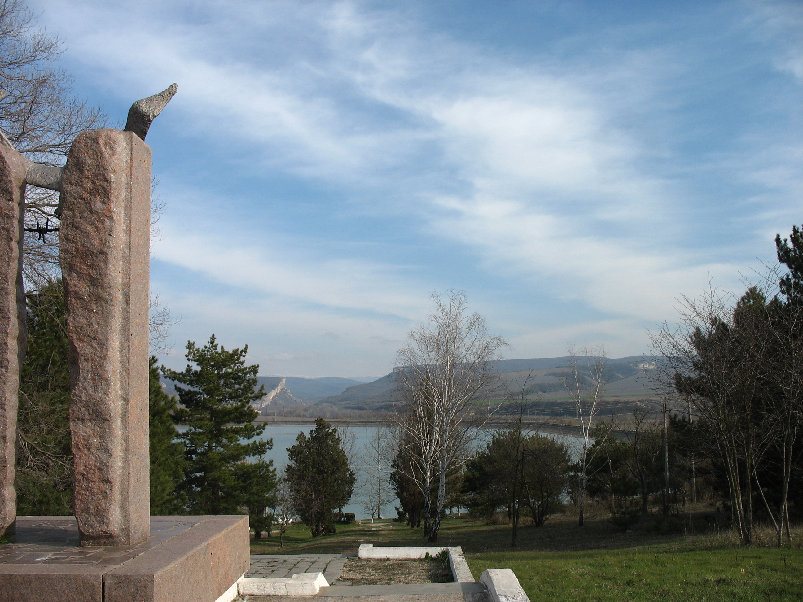 Egiz Oba Water Reservoir (Bakhchisaray)